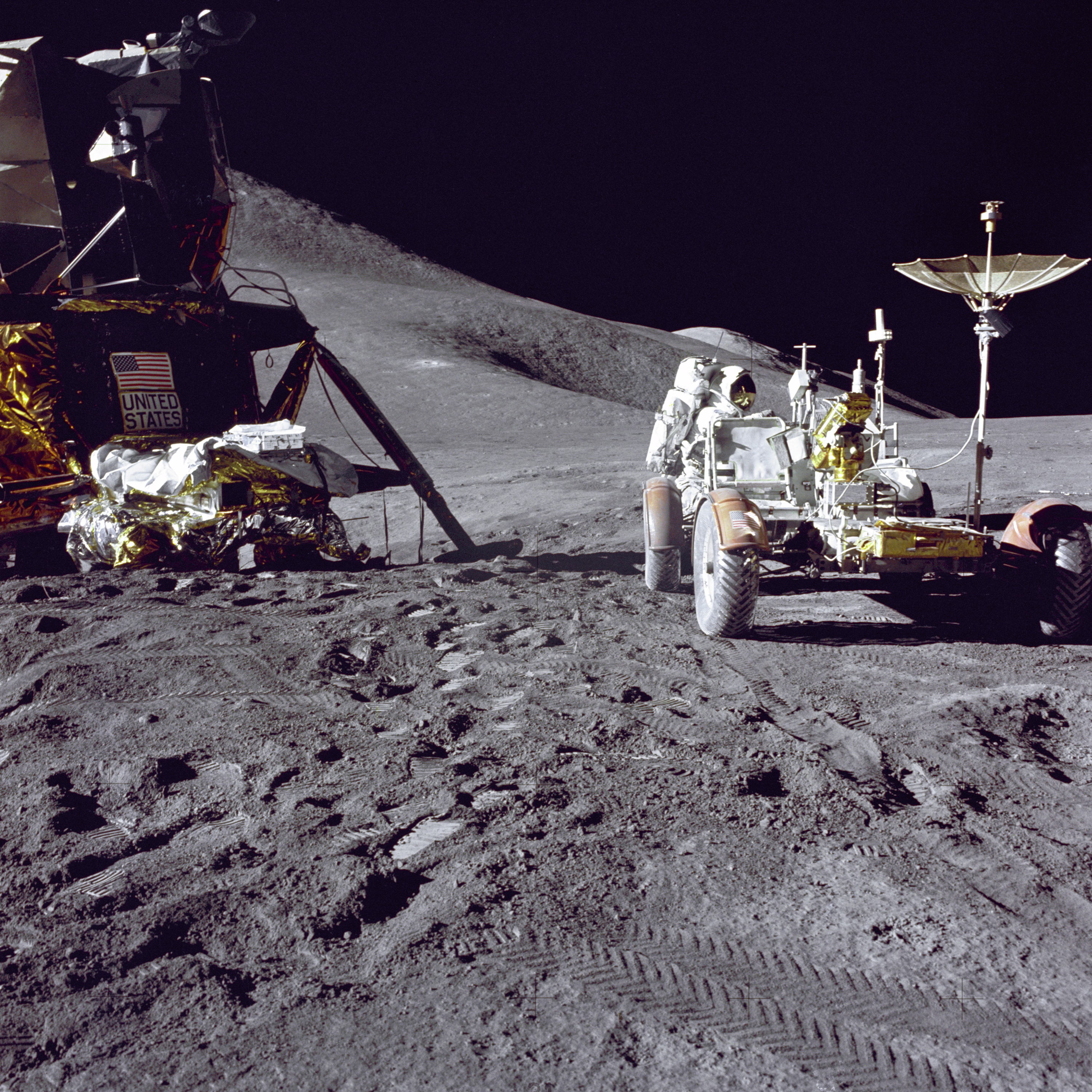 Apollo 15 Lunar Module pilot James B. Irwin loads up the "Rover", Lunar Roving Vehicle (LRV) with tools and equipment in preparation for the first lunar extravehicular activity (EVA-1) at the Hadley-Apennine landing site. A portion of the Lunar Module (LM) "Falcon" is on the left. The undeployed Laser Ranging Retro-Reflector (LR-3) lies atop the LM's Modular Equipment Stowage Assembly (MESA). This view is looking slightly West of South. Hadley Delta and the Apennine Front are in the background to the left. St. George crater is approximately 5 kilometers (about 3 statute miles) in the distance behind Irwin's head.